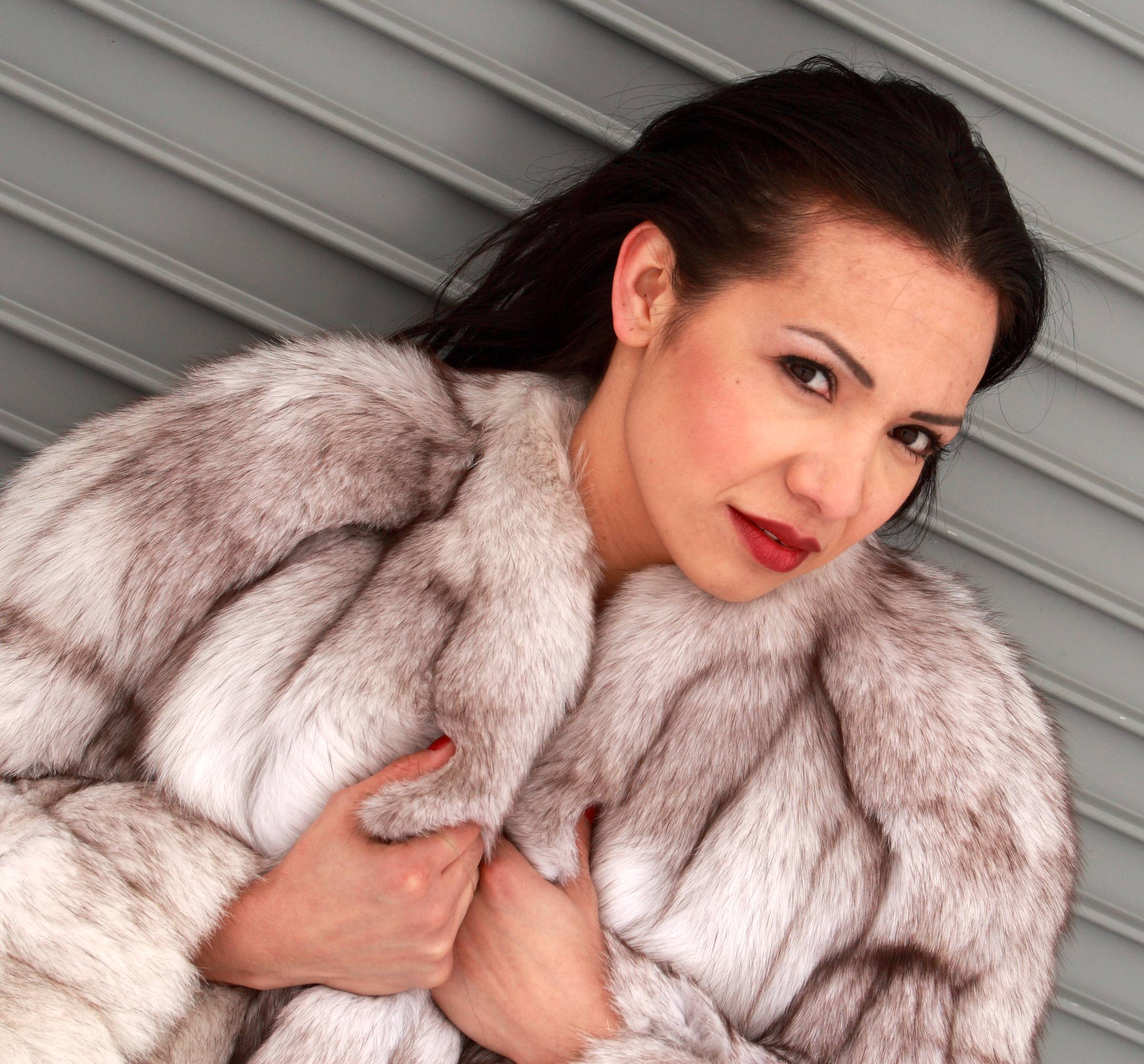 From flickr: I took these photos of Vanessa on a frigid snowy day in March 2009 in Anchorage, Alaska. For some insane and unexplained reason some people wanted to shoot outdoors, so we did. I think everyone got sick the week after the shoot Vanessa is a lovely lass that I met via Model Mayhem. This was my first time shooting with her she is an absolute delight - very photogenic and a lot of fun to shoot with. We ended up with a lot of shots near the doors of a building (probably to stay out of the wind); so if/when we shoot again we will have a lot variety. Thanks Vanessa for a fun shoot!